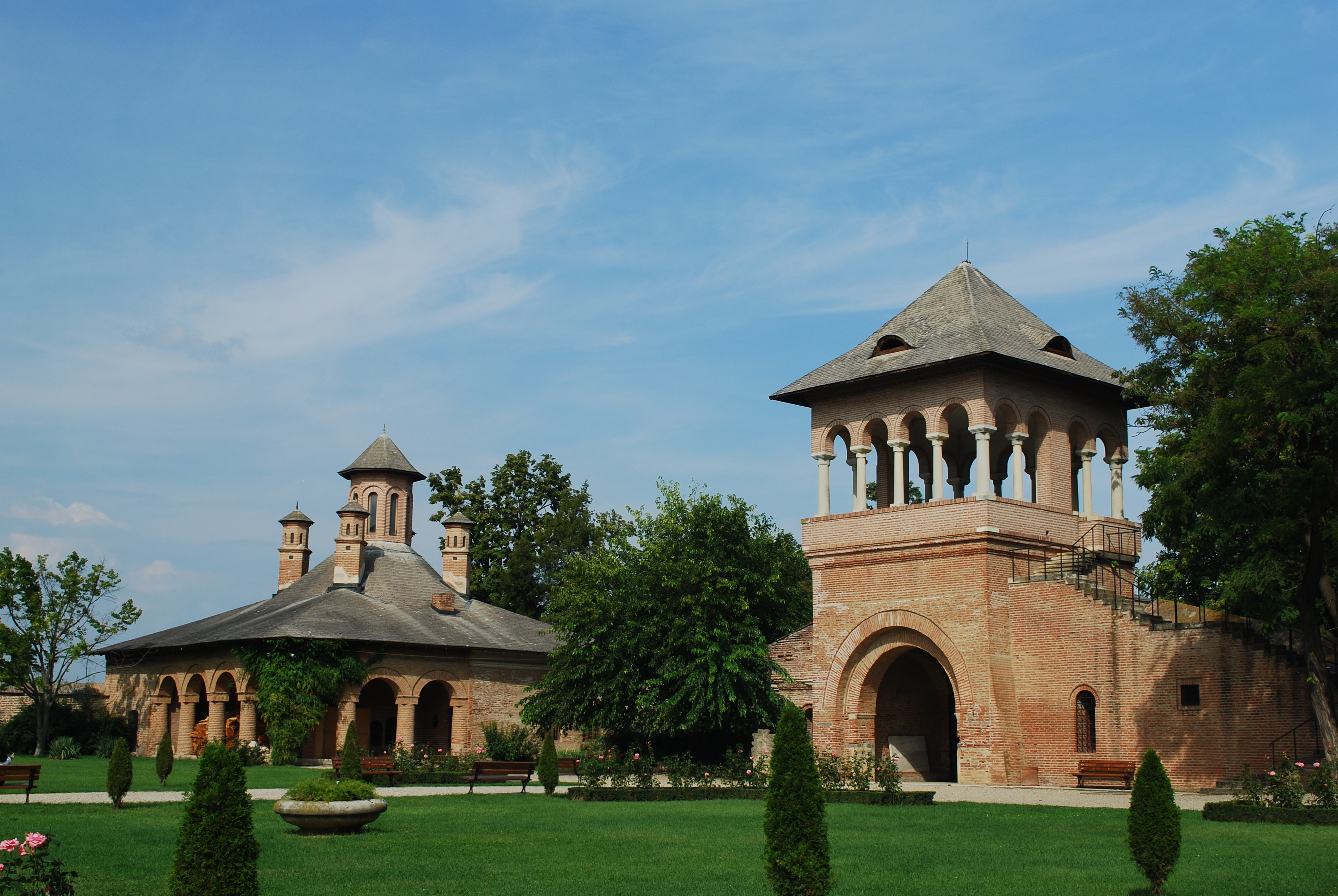 Mogoşoaia Palace in Mogoşoaia, Ilfov County, Romania - Brancovan Kitchen and the Watch Tower